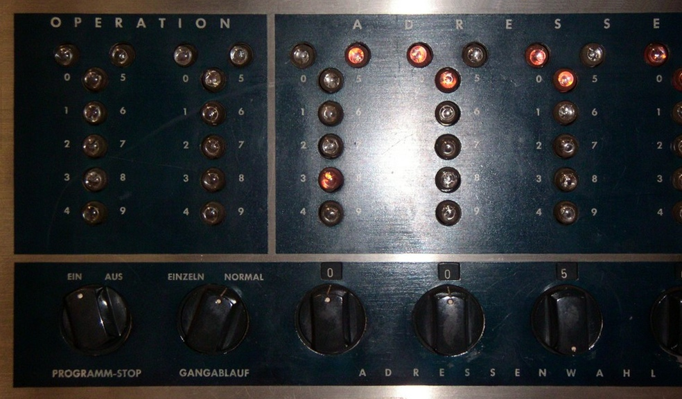 Close-Up of an IBM 650, running in the IBM Sindelfingen Museum (shown are several decimal digits represented by 7-lamp bi-quinary encoding. In each group of seven lamps two are lit.)